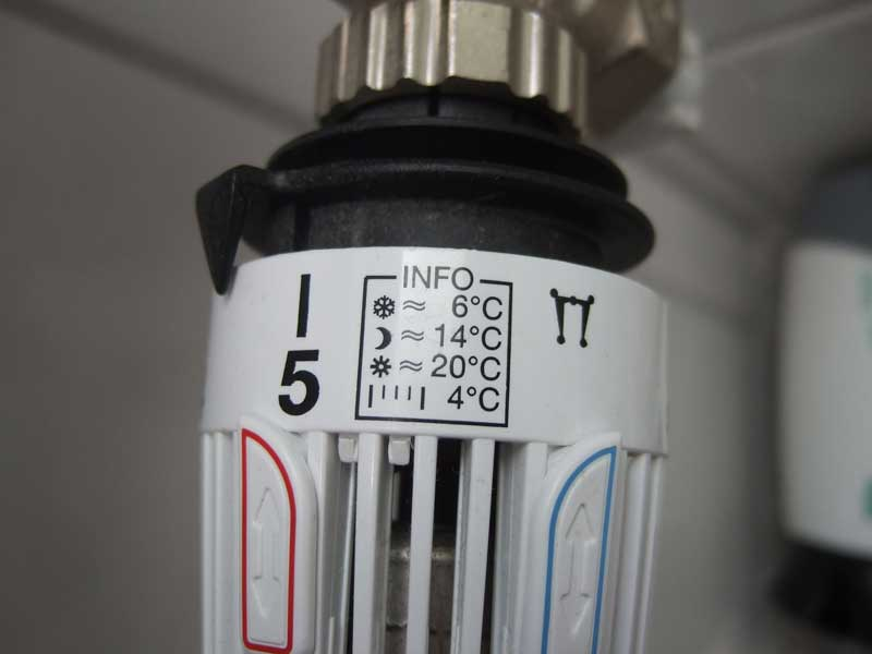 Information about symbols on Thermostatic Radiator Valves